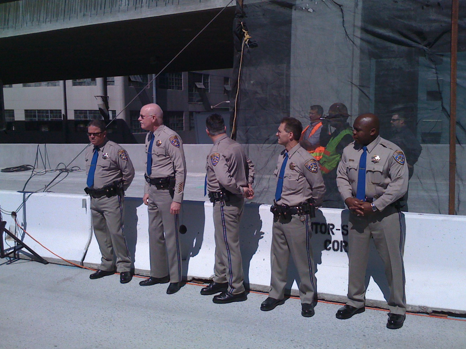 California Highway Patrol officers at the San Francisco West Bay Approach Bay Bridge official opening, Friday, April 11, 2008